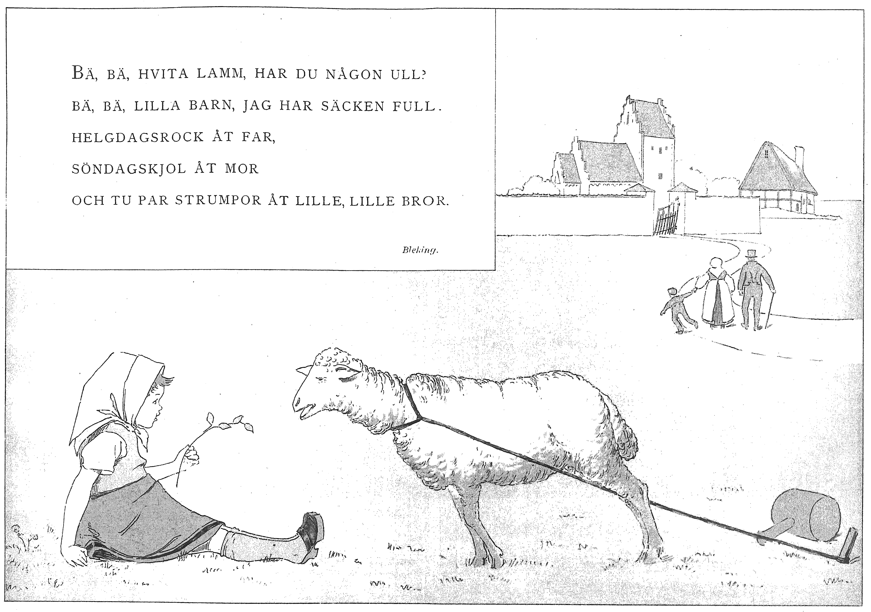 Black and white copy from a water colour painting in Ottilia Adelborgs book "Ängsblommor" published in 1890.